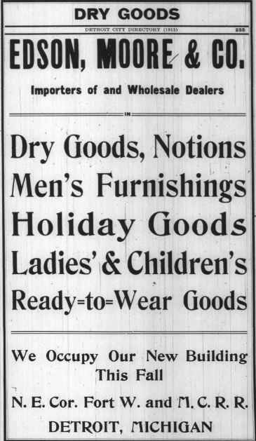 Edson, Moore & Co advertisement describing product line and new location planned for later in 1913